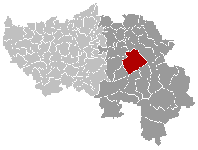 Map, municipality belgium Jalhay